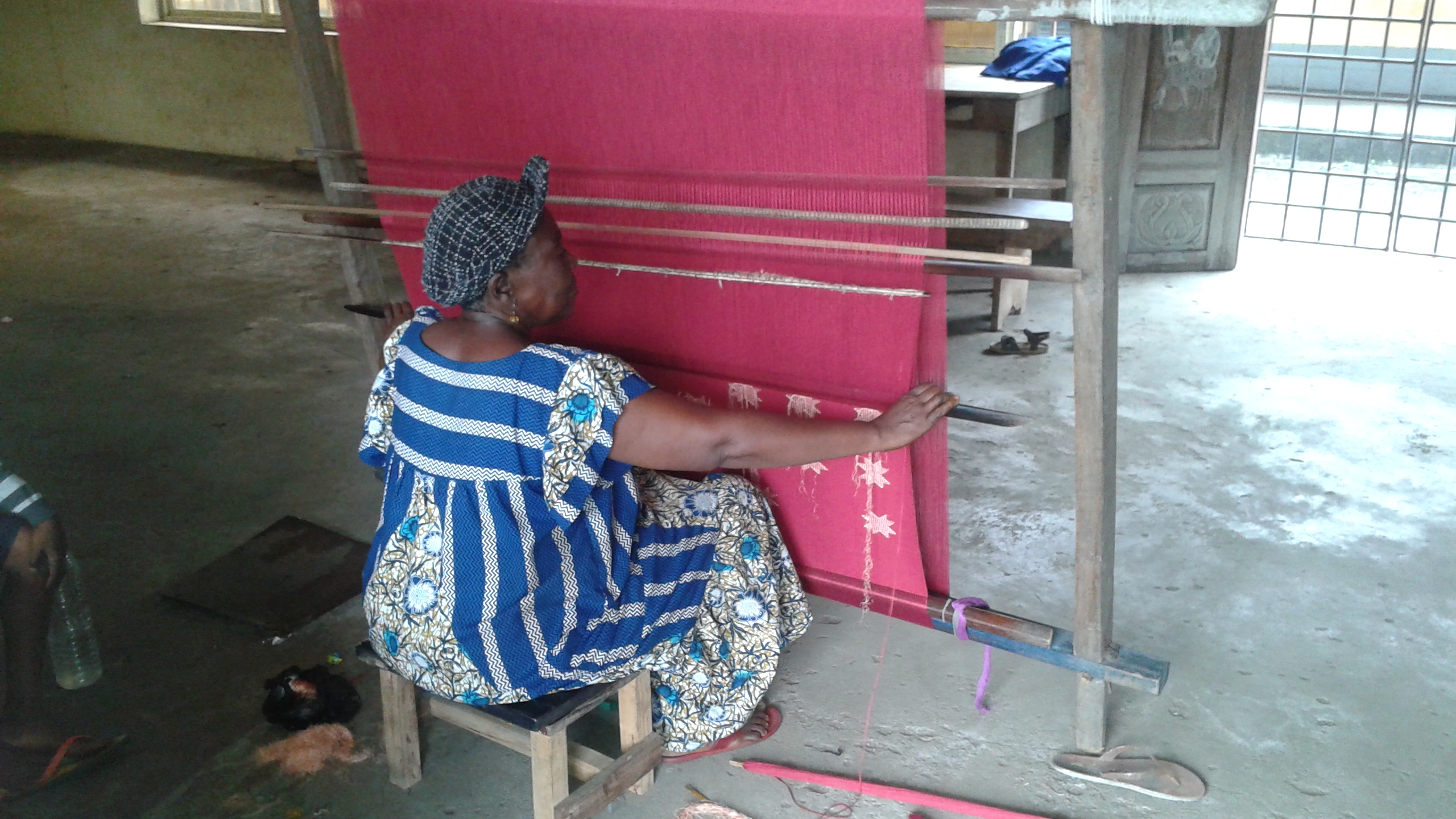 Akwete cloth This is an image of "African people at work" from Nigeria